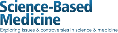 Logo for Science-Based Medicine website, extracted from its home page